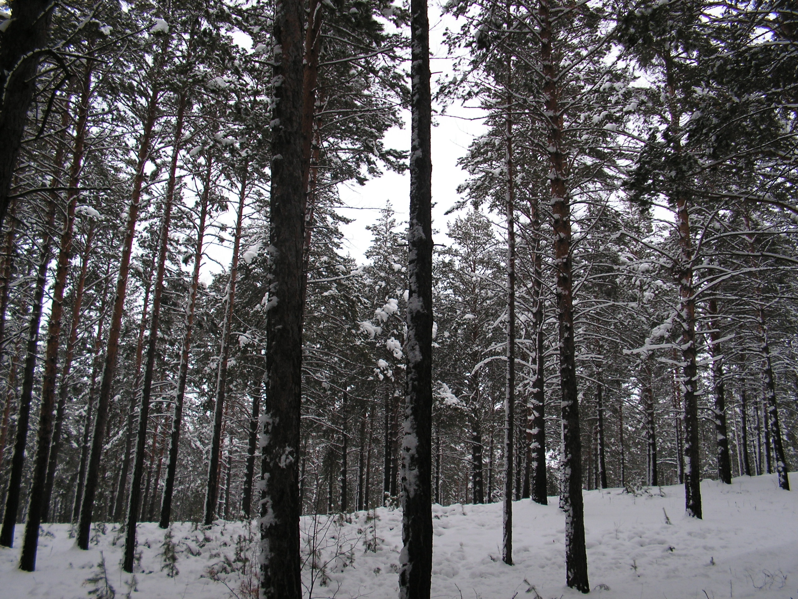 Scots Pines (Pinus sylvestris) in Barnaul Ribbon Forest in winter.